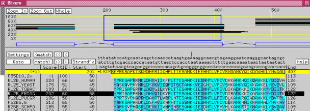 Displays blast multiple alignments. The top part shows the length of and percentage homology of the other proteins or DNA sequences for the target and below this, the portion contained in the sliding box is and shows a list of these proteins and their sequence by coding frame. Identical residues are dark, similar residues are light blue. Picking one of the MSPs above will highlight it in cyan thus showing where it crossmatches in other parts of the target sequence.